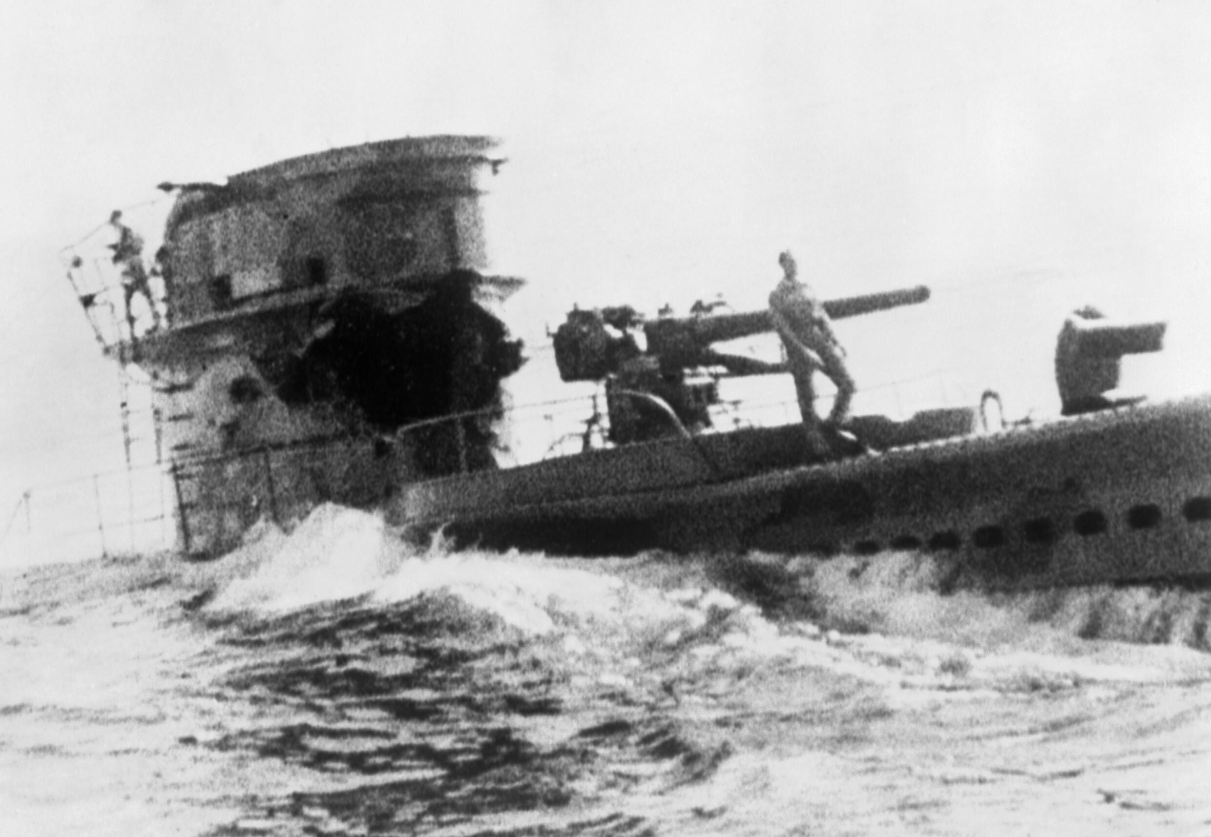 Operation Pedestal, August 1942 12 August: The sinking of the Italian Submarine COBOLTO: A detailed photograph of COBALTO's conning tower showing gun-fire damage.